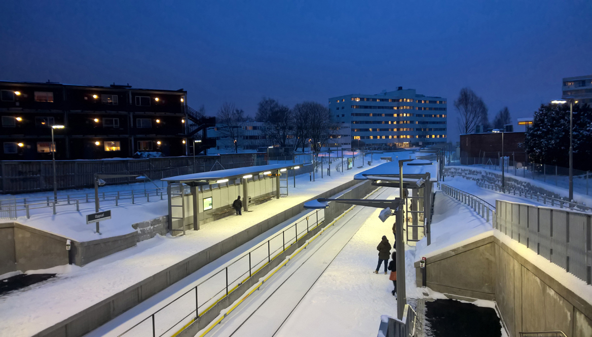 The new-opened Oppsal Metrostation. Seen from streetlevel towards the westbound platform.